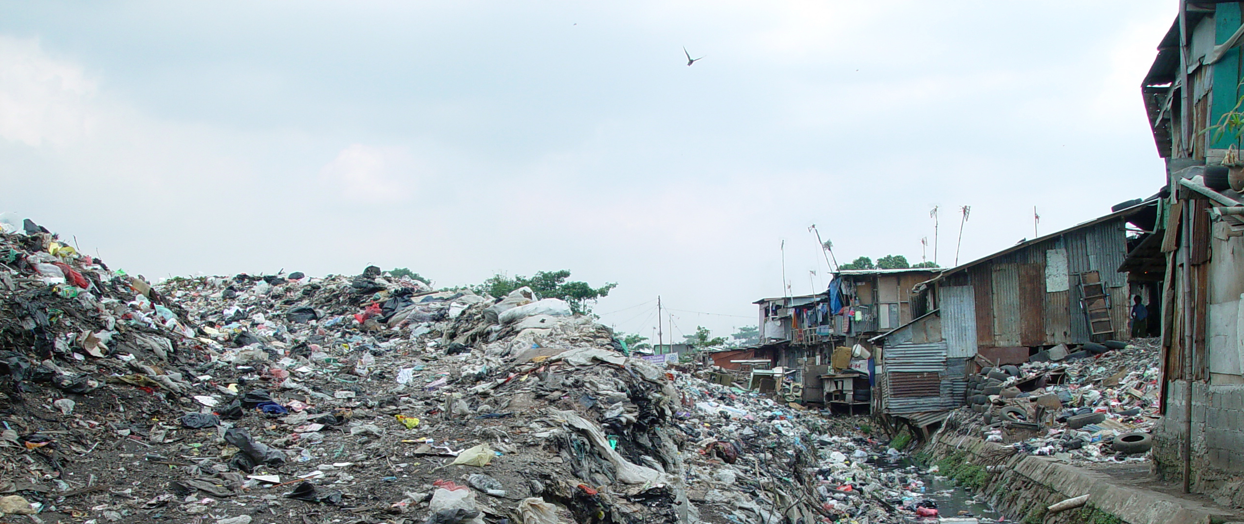 Slum life, Jakarta Indonesia.